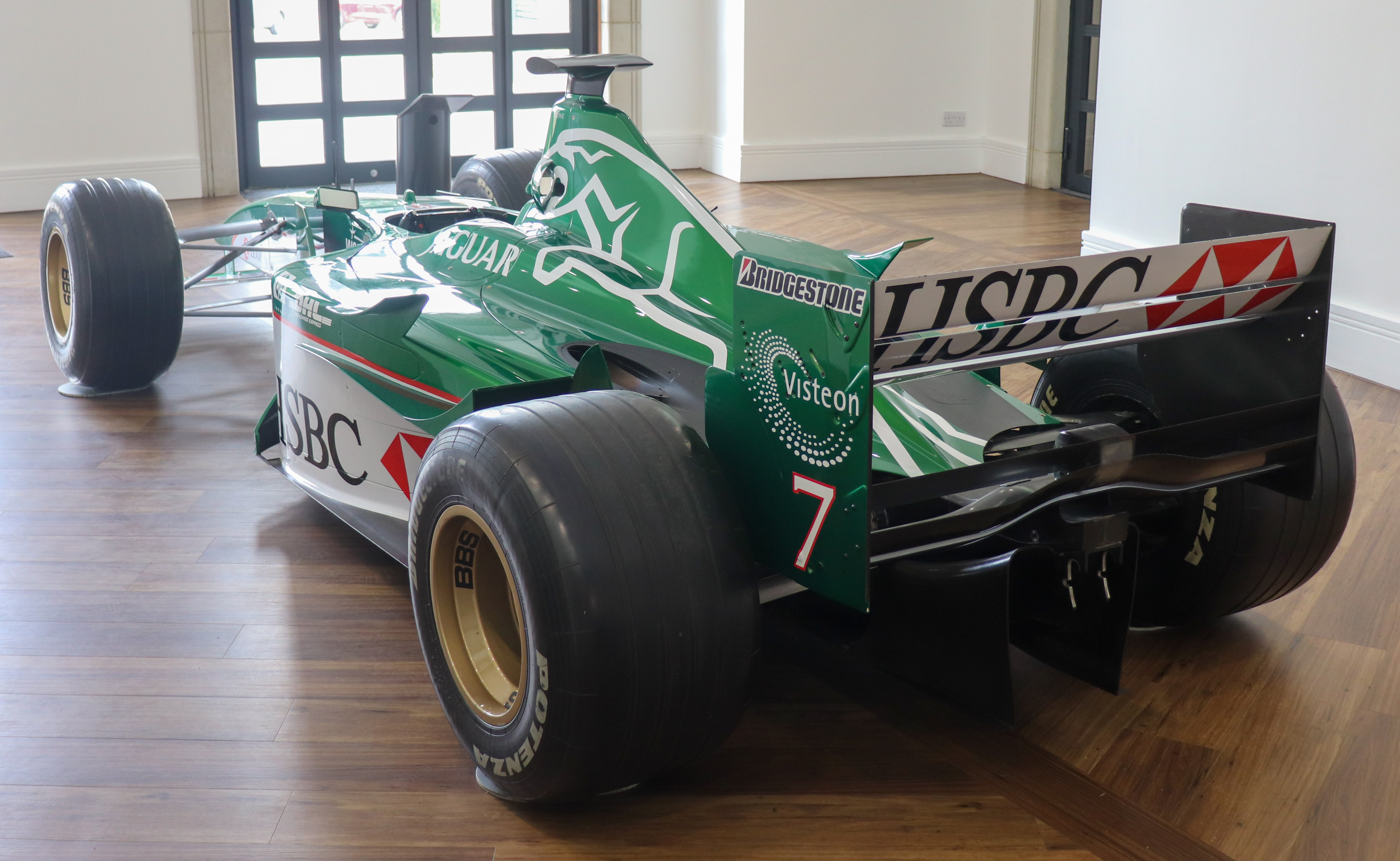 2000 Jaguar R1 3.0 Rear Taken at the British Motor Museum, Gaydon